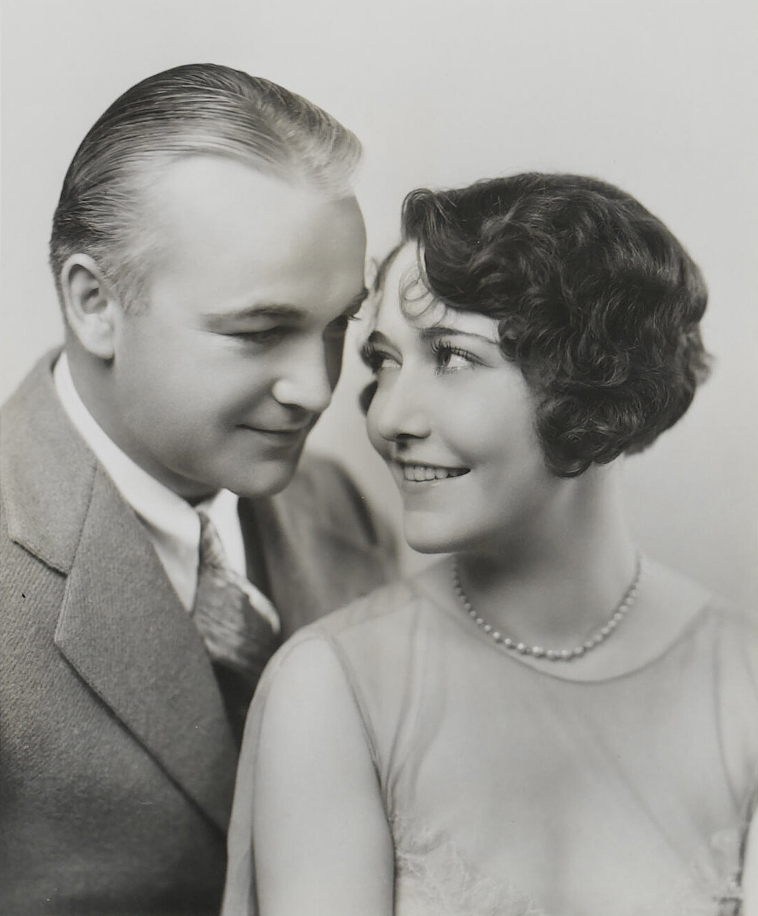 William Boyd and Dorothy Sebastian in publicity still of the film His First Command (1929).